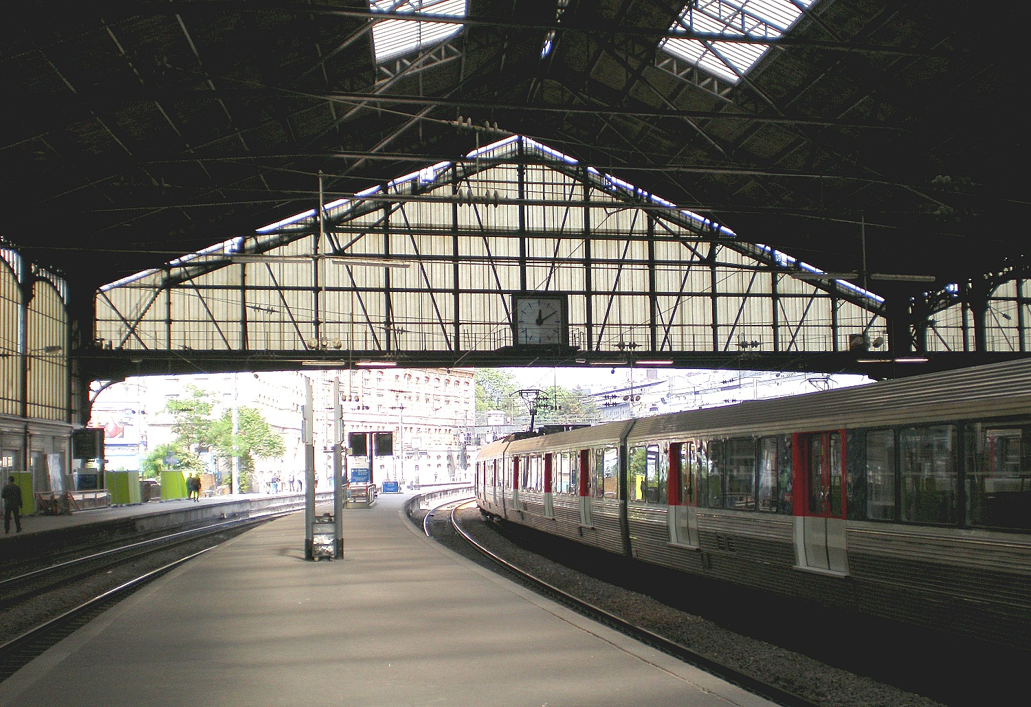 Gare Saint-Lazare - Paris